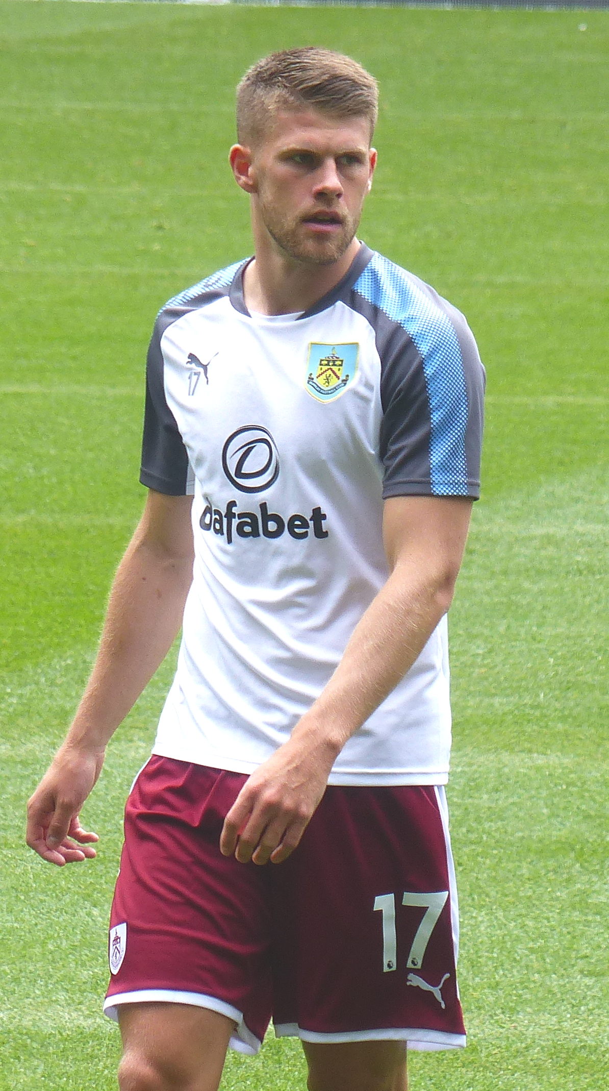 Burnley's Johann Berg Gudmundsson warms up before the game against Chelsea at Stamford Bridge August 2017